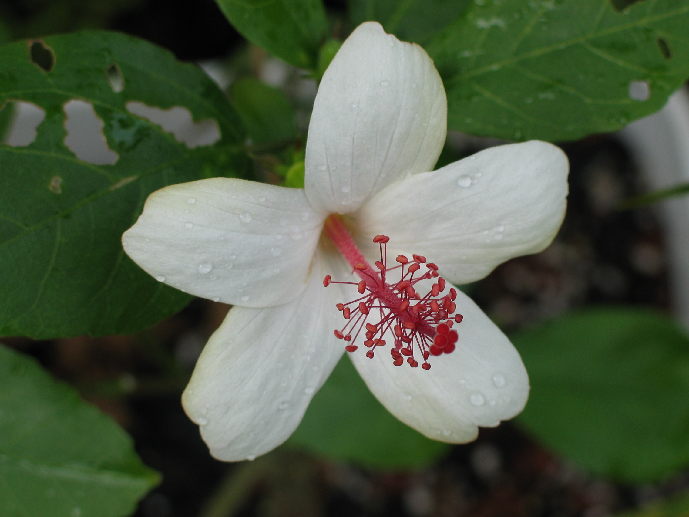 Kokiʻo keʻokeʻo or Small Kauai white hibiscus Malvaceae Endemic to the Hawaiian Islands (Kauaʻi only) Endangered Oʻahu (Cultivated) This featured particular specimen closely resembles subsp. waimeae more than subsp. hannerae. However, the flowers were small and leaves were much larger. The two native Hawaiian white hibiscuses, Hibiscus arnottianus and H. waimeae, are the only known species of hibiscuses in the world known to have fragrant flowers! NPH00016